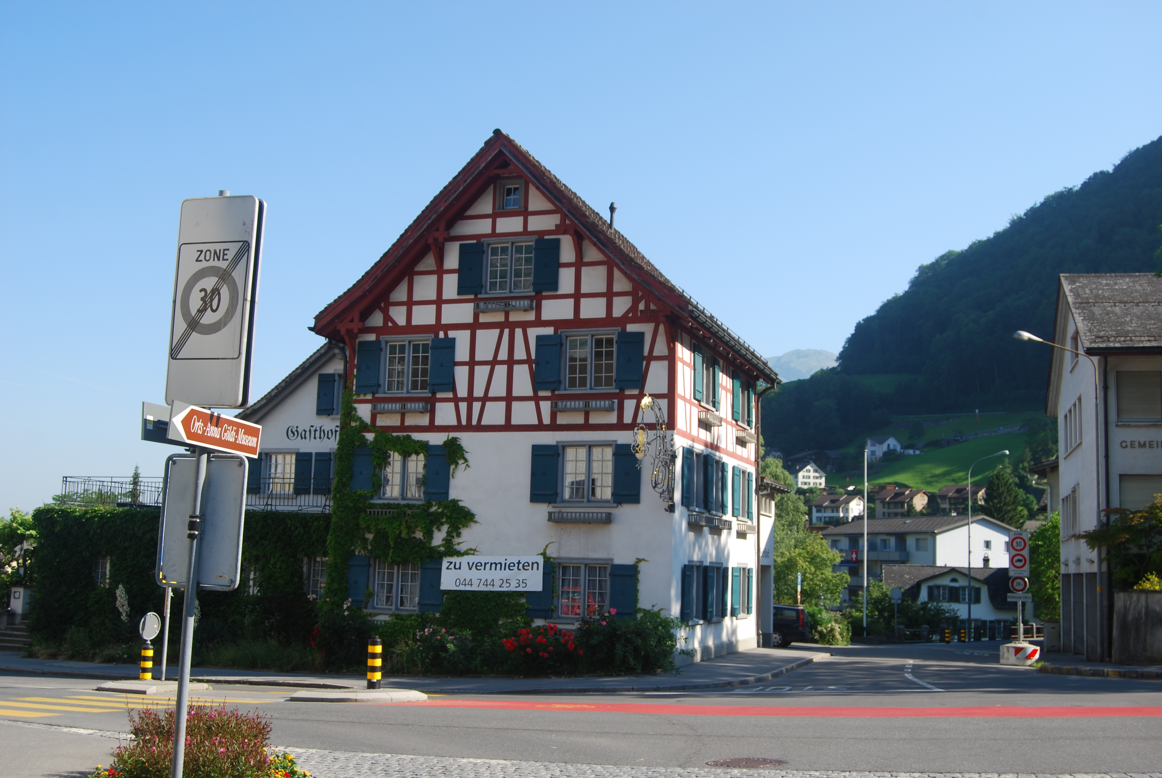 Timber framing house at Mollis, canton of Glarus, SwitzerlandEsperanto: Faktrabdomo en Mollis, Kantono Glaruso, Svislando